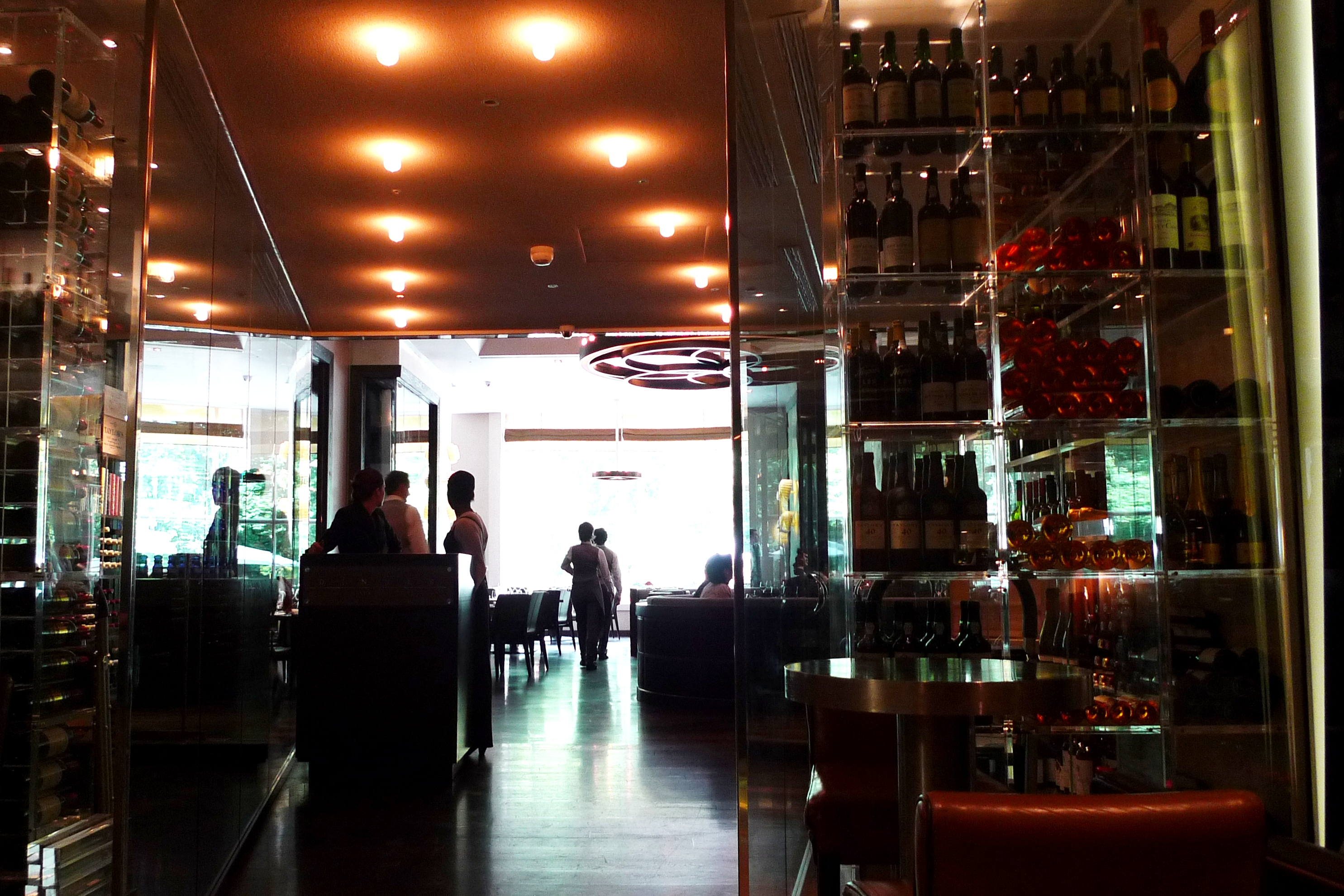 Entering the actual restaurant space, from the hotel bar. The front desk and the sign for the restaurant is just outside the hotel bar. You have to enter through the hotel's front door.